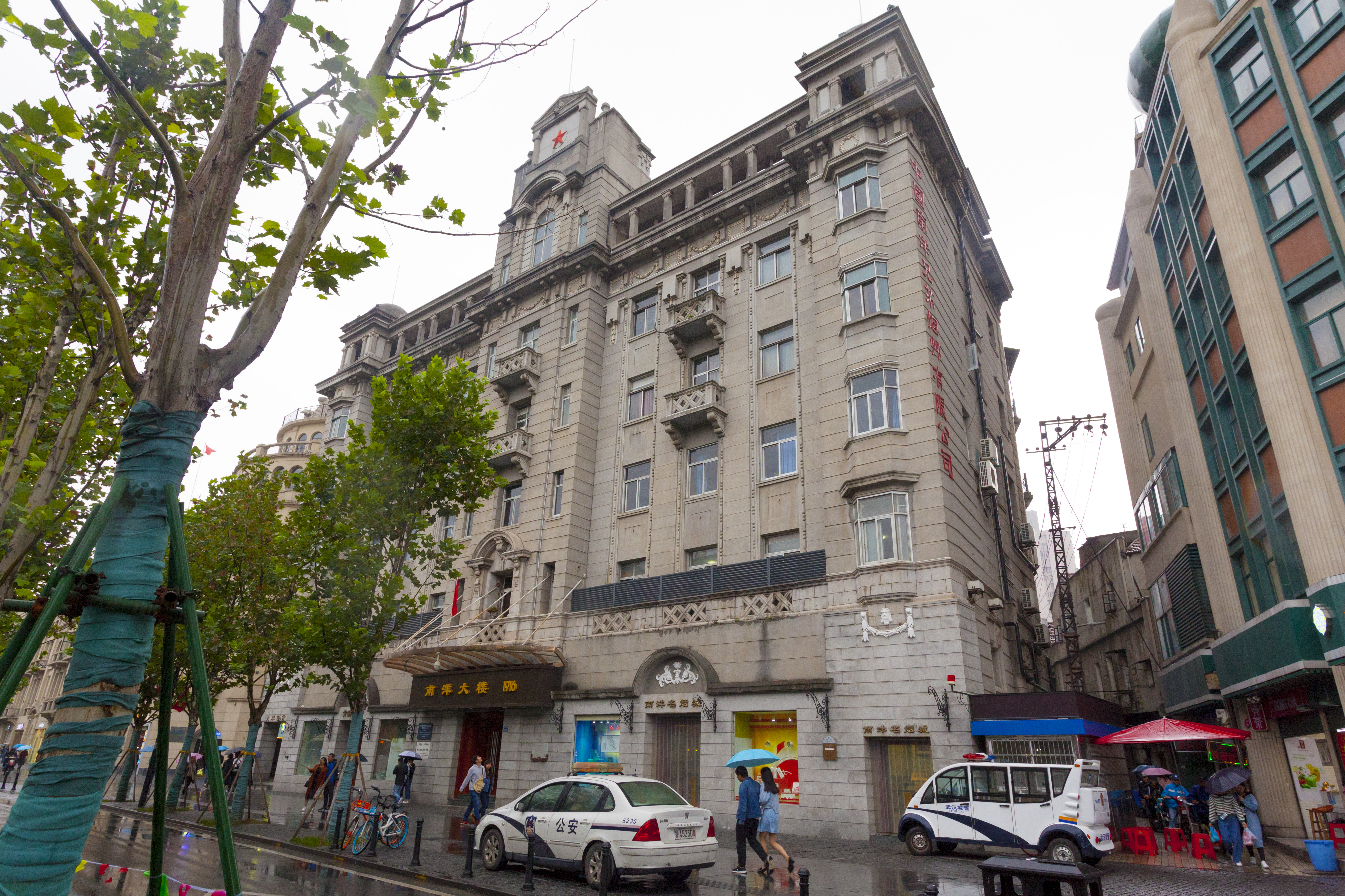 No.708, Zhongshan Avenue, Wuhan